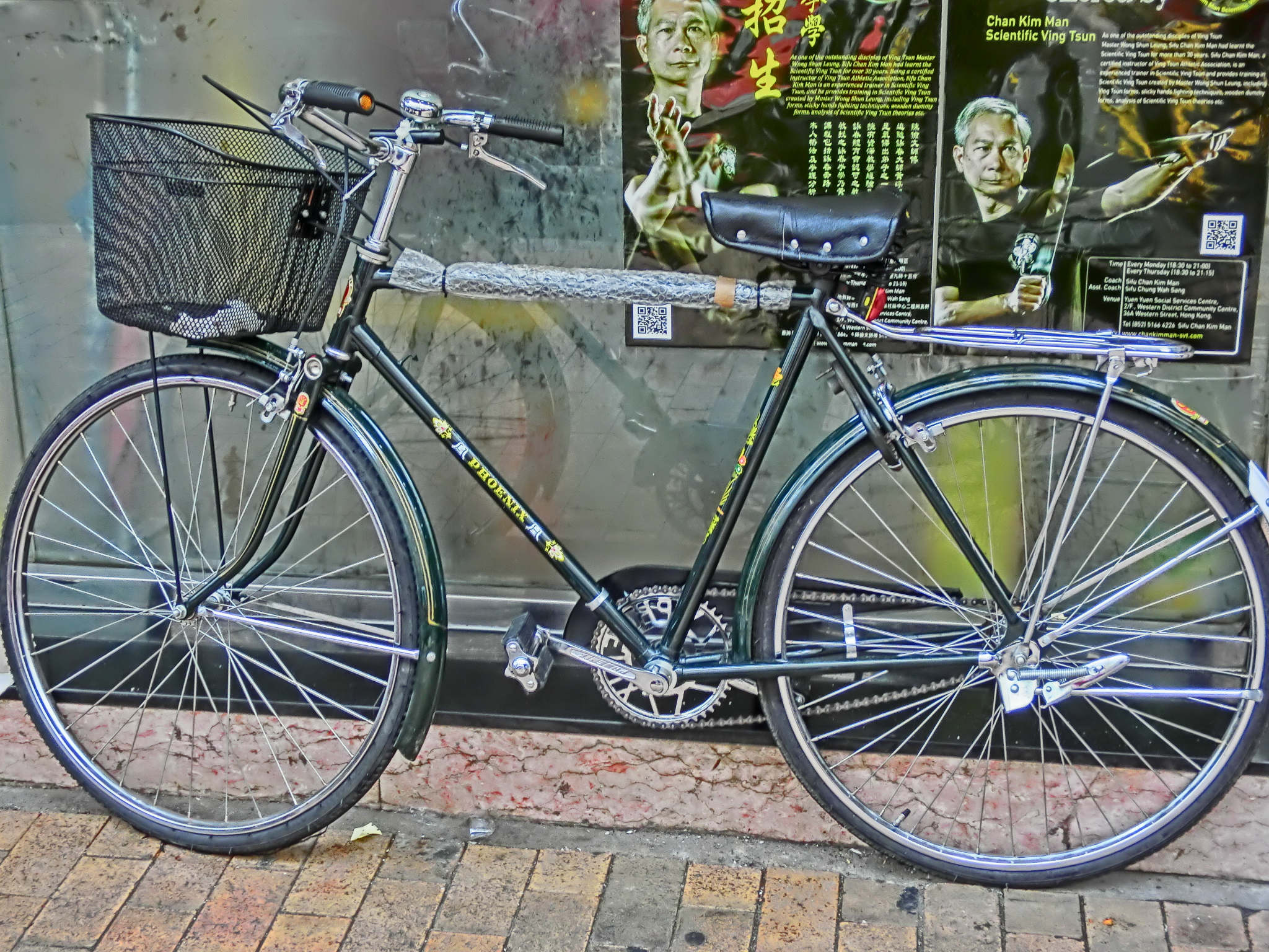 德輔道西, Des Voeux Road West, Sai Ying Pun, Hong Kong